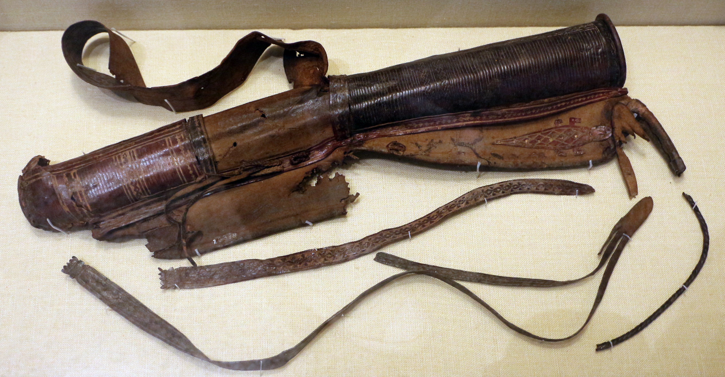 Nubian antiquities in the Oriental Institute Museum